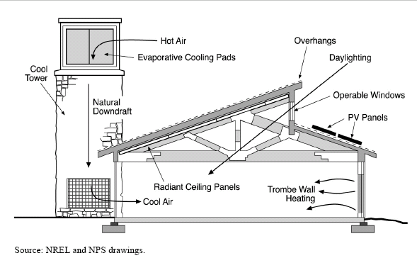 Zion National Park Visitor Center:Figure 3. Cross Section of the Building Showing Integrated Design Strategies